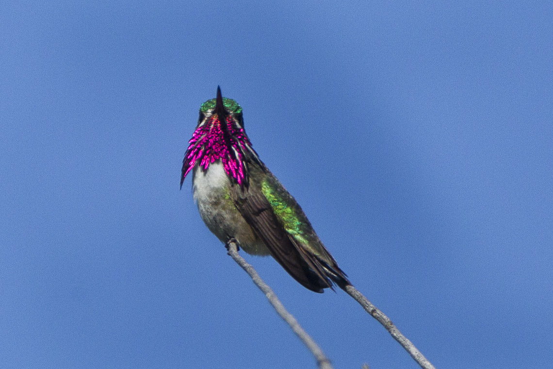 Calliope Hummingbird - Sisters - Oregon_S4E8844